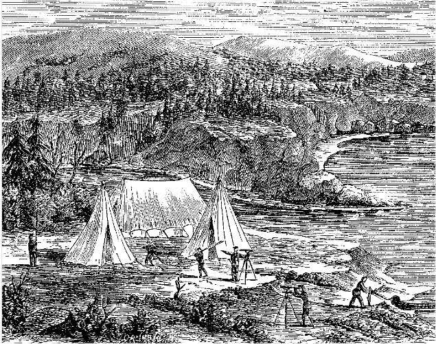 Sketch of surveyor William Austin Burt with his crew in the upper peninsula of Michigan around 1845